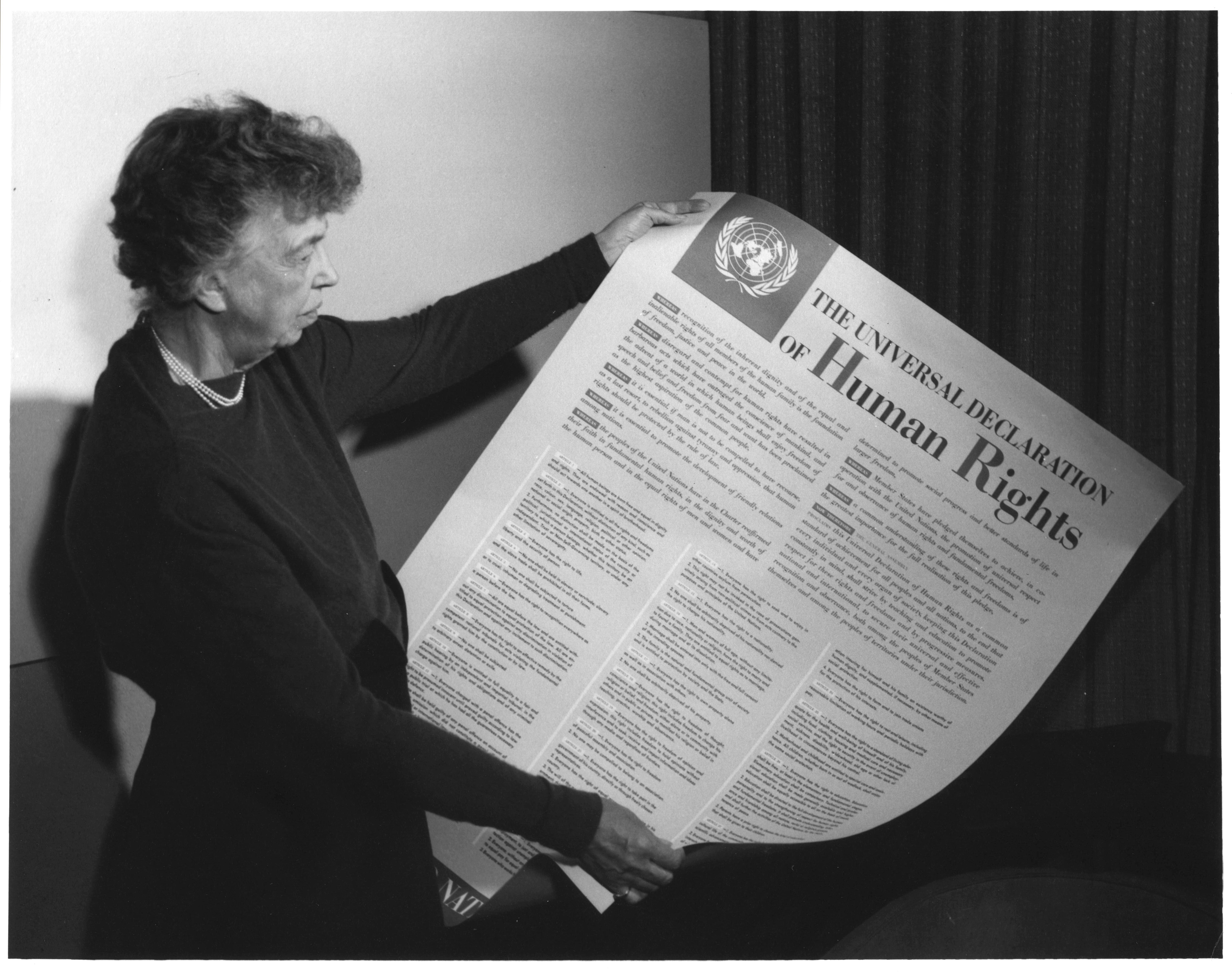 Eleanor Roosevelt holding poster of the Universal Declaration of Human Rights (in English), Lake Success, New York. November 1949. FDR Presidential Library & Museum 64-165